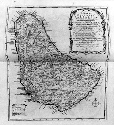 Map of Barbados by Thomas Jefferys published in a book by Griffith Hughes